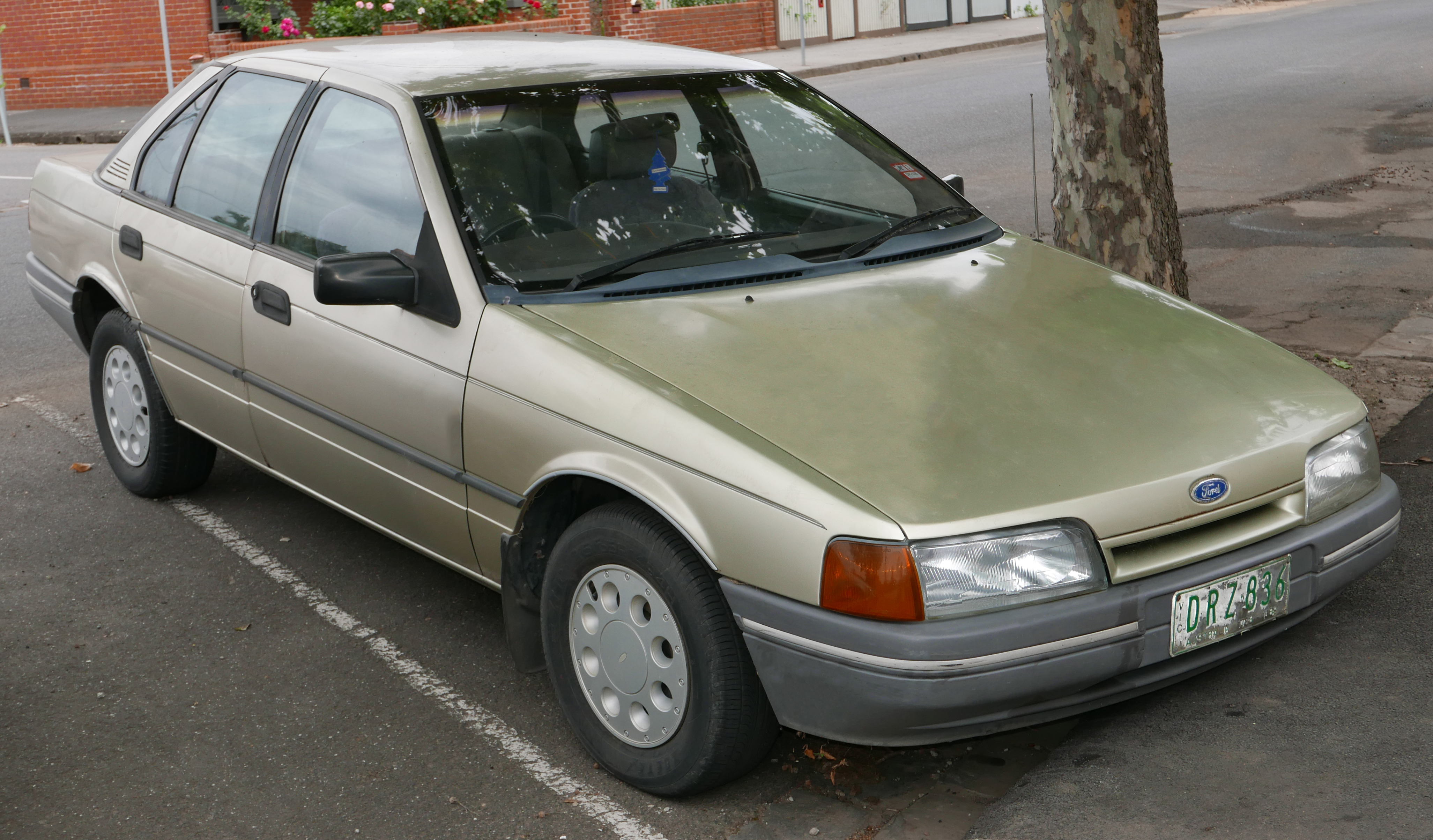 1989 Ford Falcon (EA) GL sedan. Photographed in Fitzroy North, Victoria, Australia. Vehicle registration enquiry results Jurisdiction Victoria Registration DRZ836 Chassis code 6FPAAAJG23KJ80028 Engine code JG23KJ80028T Compliance date Not available Year of manufacture 1989